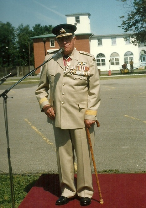 General Jean-Victor Allard when acting as reviewing officer at HMCS QUÉBEC Sea Cadet Summer Training Centre, sometime between 1985 to 1992.